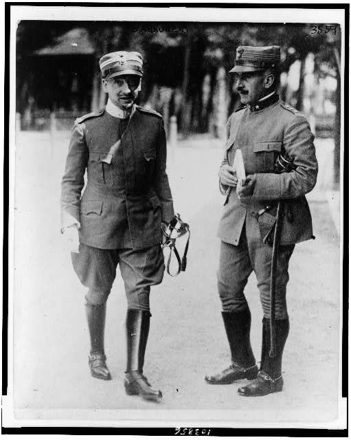 Gabriele D'Annunzio (on the left) with a fellow officer in Italy